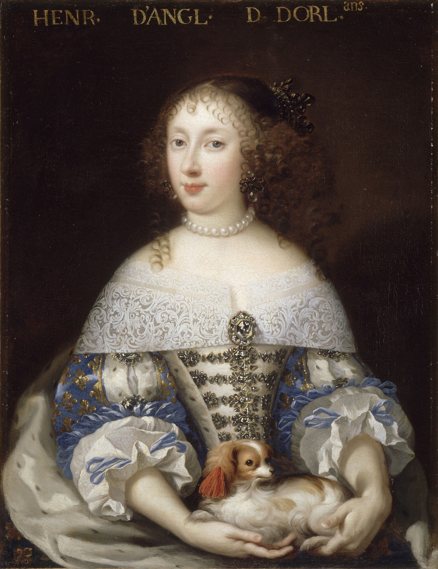 Portrait of Henrietta of England (1644-1670)label QS:Len,"Portrait of Henrietta of England (1644-1670)"label QS:Lfr,"Henriette d'Angleterre, duchesse d'Orléans, dite Madame (1644-1670)"